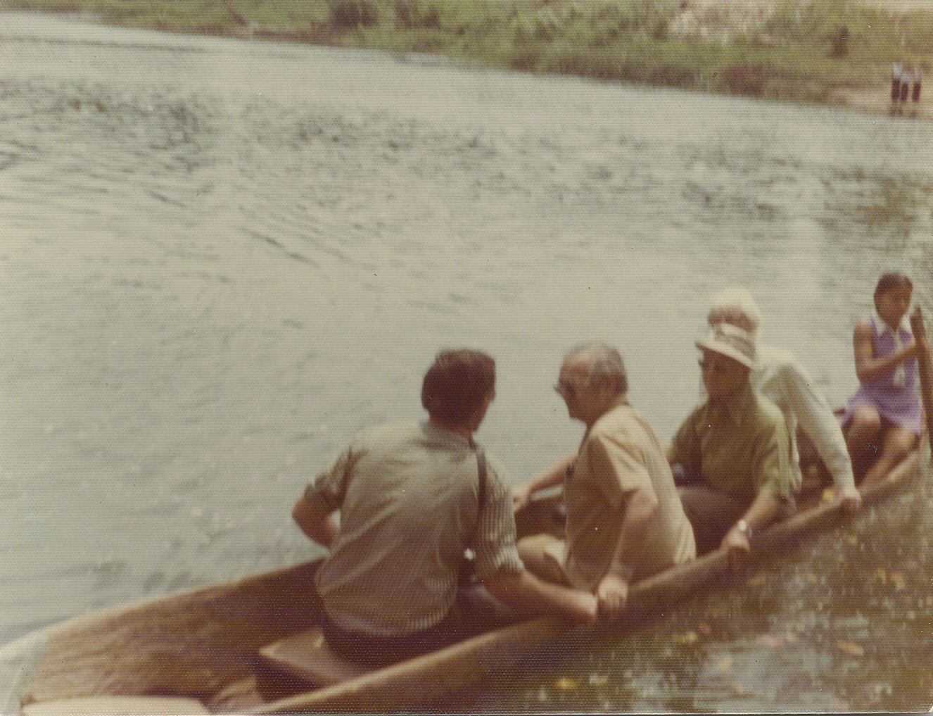 Rio Mopan, Belize, 1976. Canoe transporting visitors to the Maya ruins of Xunantunich across the river; it was another mile and a half hike up hill after crossing the river.